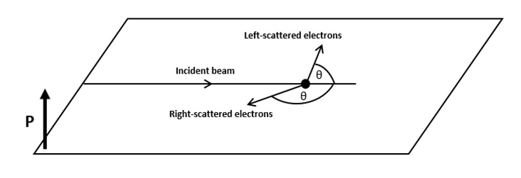 An incident eletron beam undergoes Mott scattering